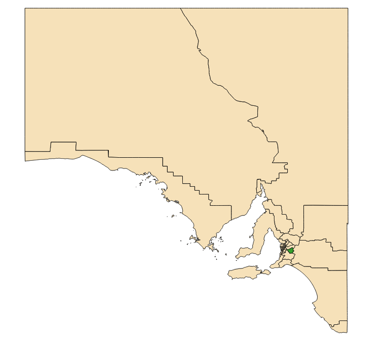 Electoral district 2018 boundaries shown in green